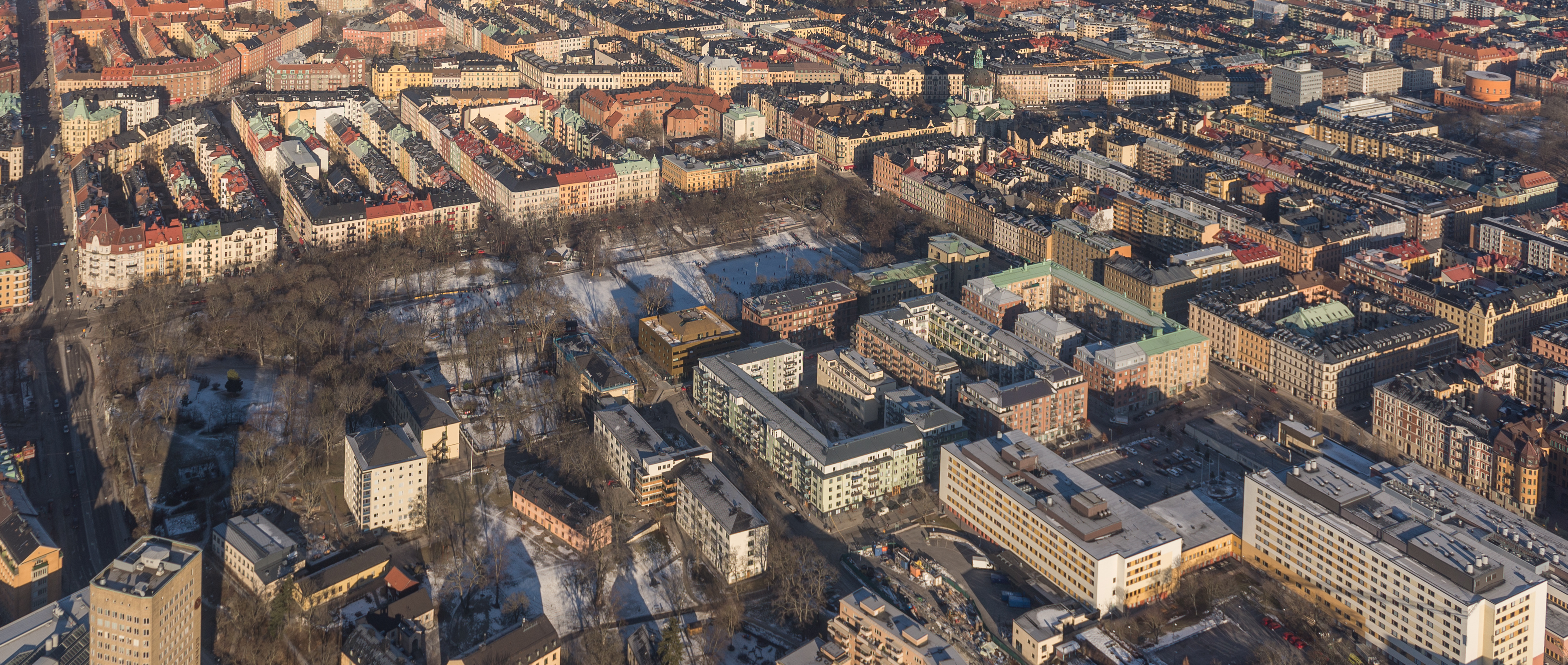 Vasaparken and Vasastan.